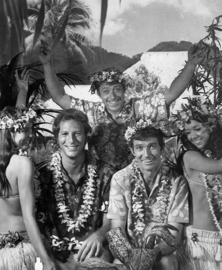 Photo of (from left) Bob Einstein, Steven Franken and Robert Hogan from a 1970 television pilot Three for Tahiti. Networks sometimes arranged for special summer programming to replace their regular shows on hiatus; they also aired unsold pilots of shows during this time.